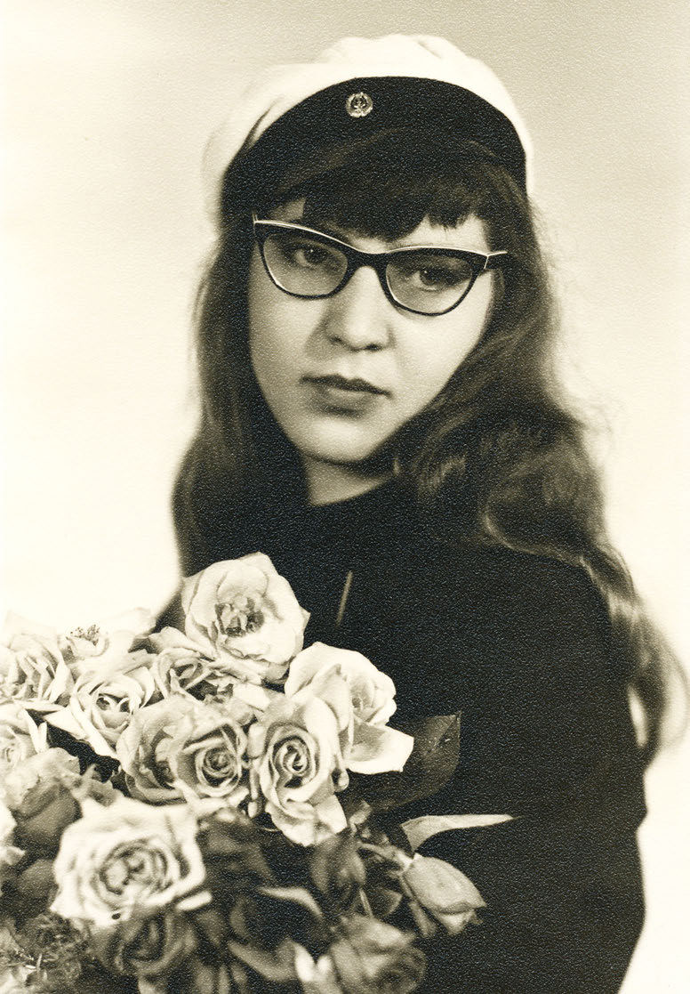 Photograph of the Finnish architect Kirsti Kasnio (1937–2014) at the time of her matriculation exam.